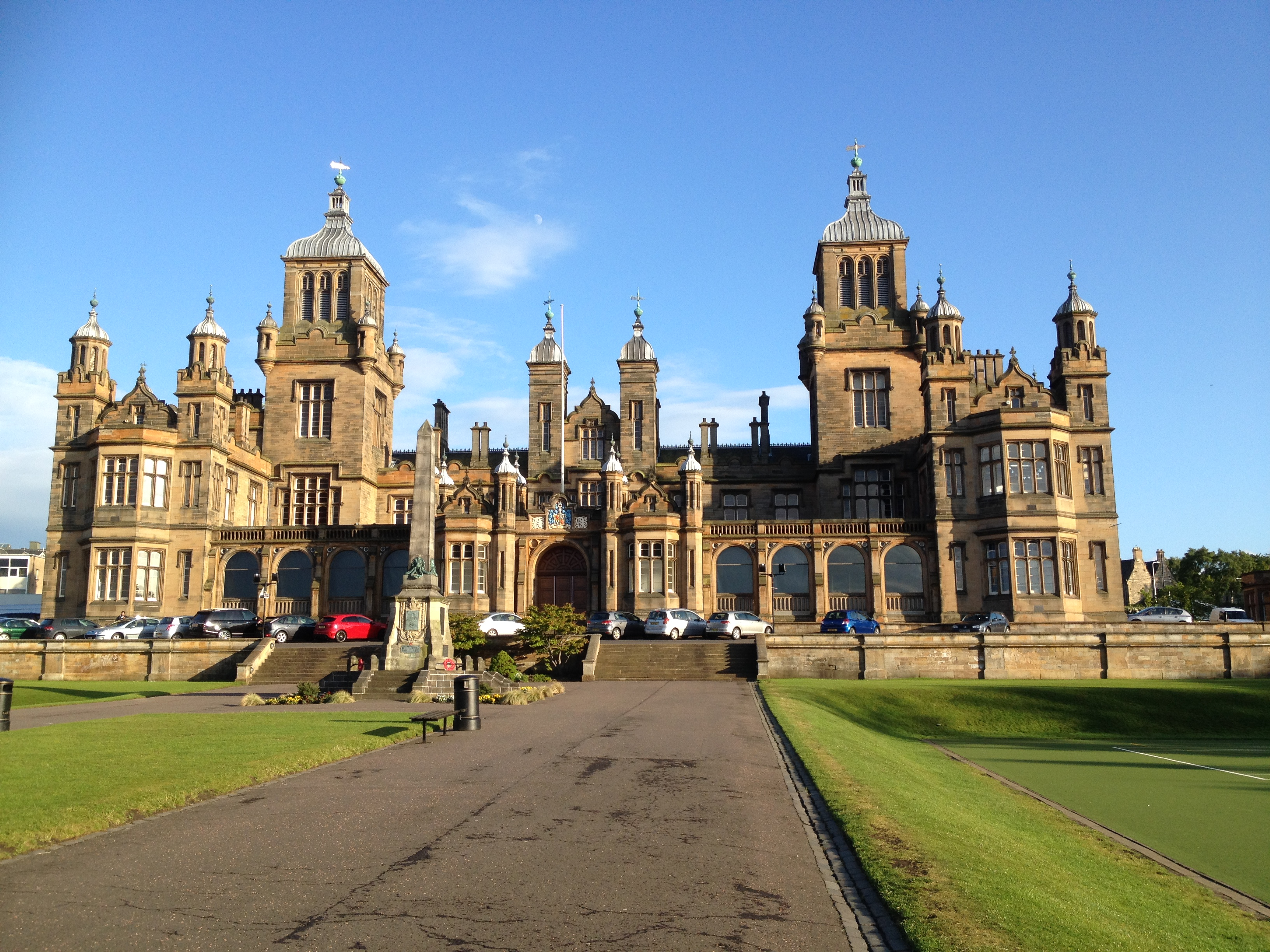 Front view of Stewart's Melville College in Spring 2015